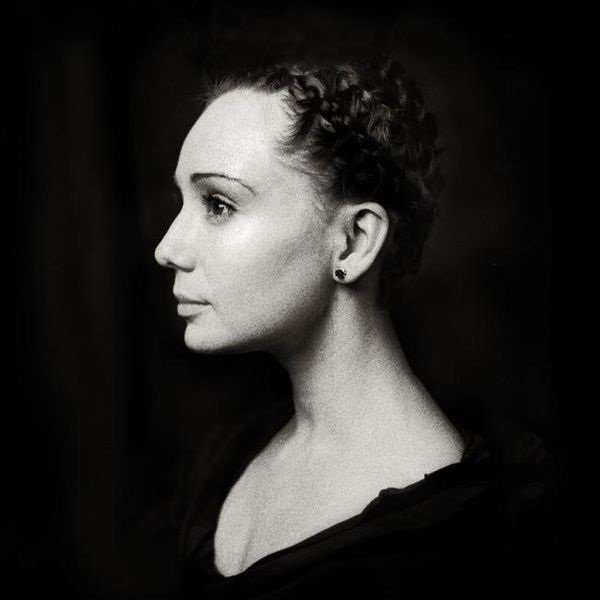 Portrait of russian actress and charity activist Chulpan Khamatova